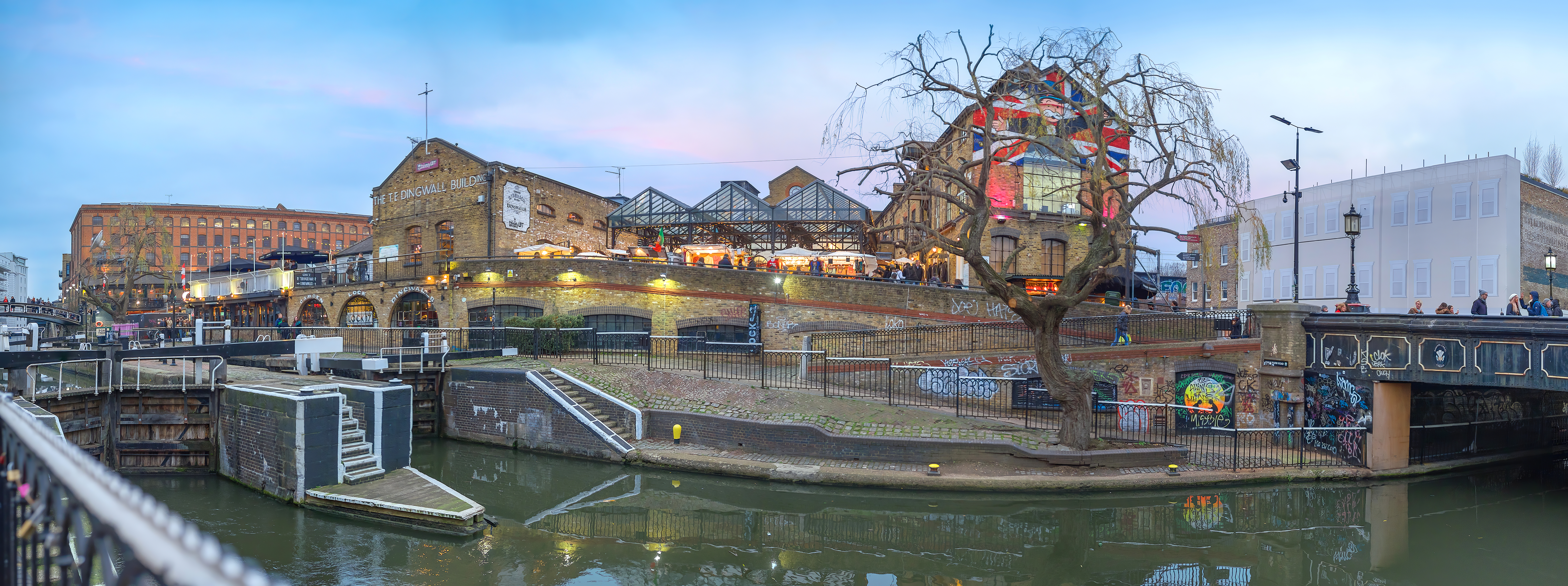 Camden Lock panorama at sunset by Viktor Forgacs